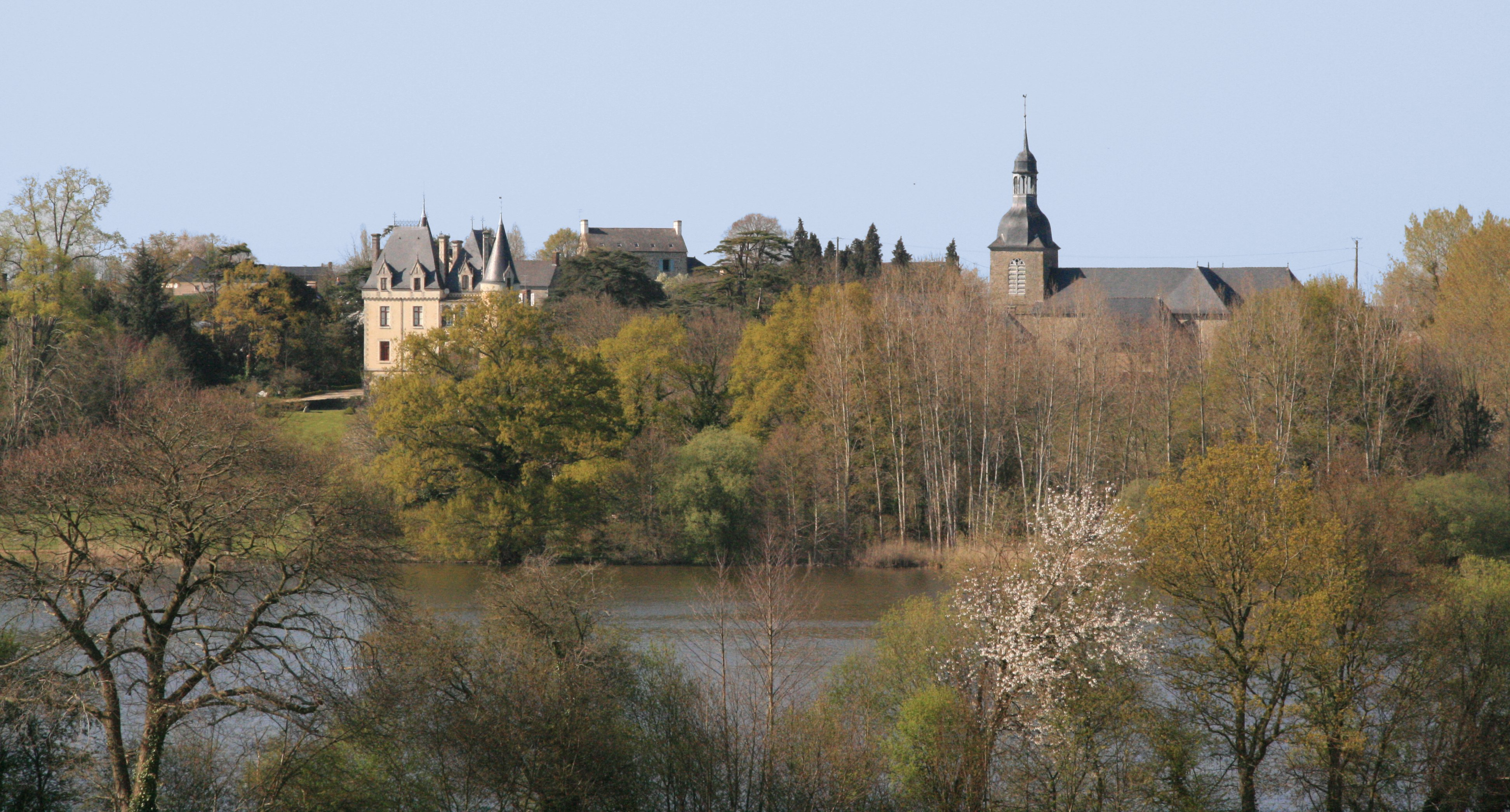 Castle and church of Marcillé-Robert, above the pond of Marcillé, Ille-et-Vilaine, Brittany, France. Church Saint-Ouen was built from 17th to 19th centuries.